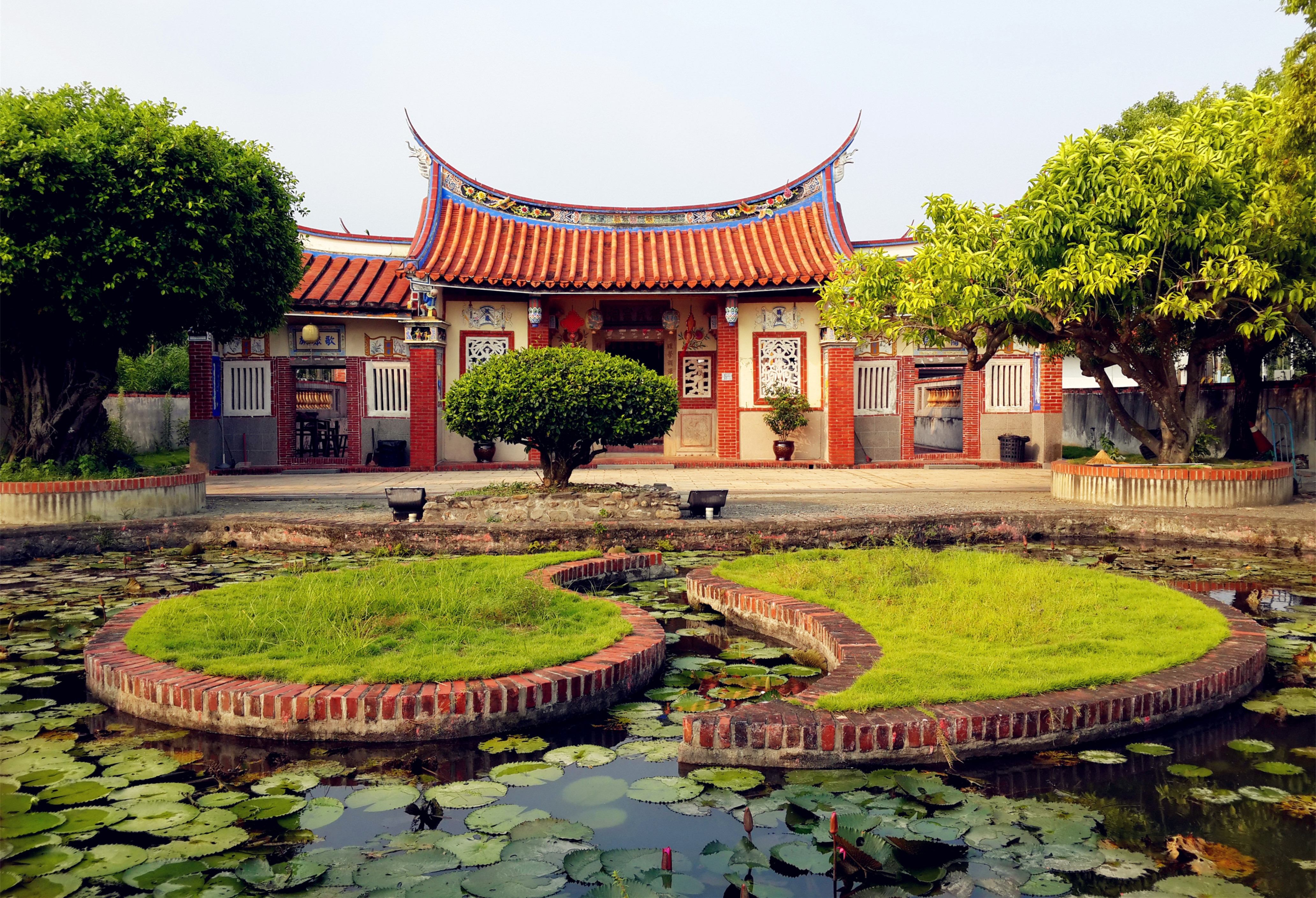 Built in 1923, the Yang Family Ancestral Hall is an ancient house funded by members of the Yang family living in various parts of Pingtung. Yang Family Ancestral Hall is a traditional Hakka quadrangle architecture situated on a sloped terrain with the center of the building as the highest point of the house accompanied by descending wings. The Hall once faced removal due to road construction plan but was fortunately preserved under the efforts of family descendents and was later listed as a National 3rd Category Historical Site by the Taiwanese Government. Traditional Hakka architecture’s emphasis on feng-shui can be seen in the "Tai-chi Pond" located in front of the Hall. Land Deity placed beneath the ancestral tablet is also a unique architectural feature which can only be found in Taiwan. Within the heart-shaped pond, the image of Tai-Chi, which represents both ying and yang, was built with red bricks. According to traditional feng-shui, such arrangement can bring wealth and is a symbol of a wish for a fruitful family. On the other hand, Land Deity which originated from the "dragon vein" of Taiwu Mountain was placed in the Pond to enliven the feng-shui in hope to give blessings to the Cheng descendents.